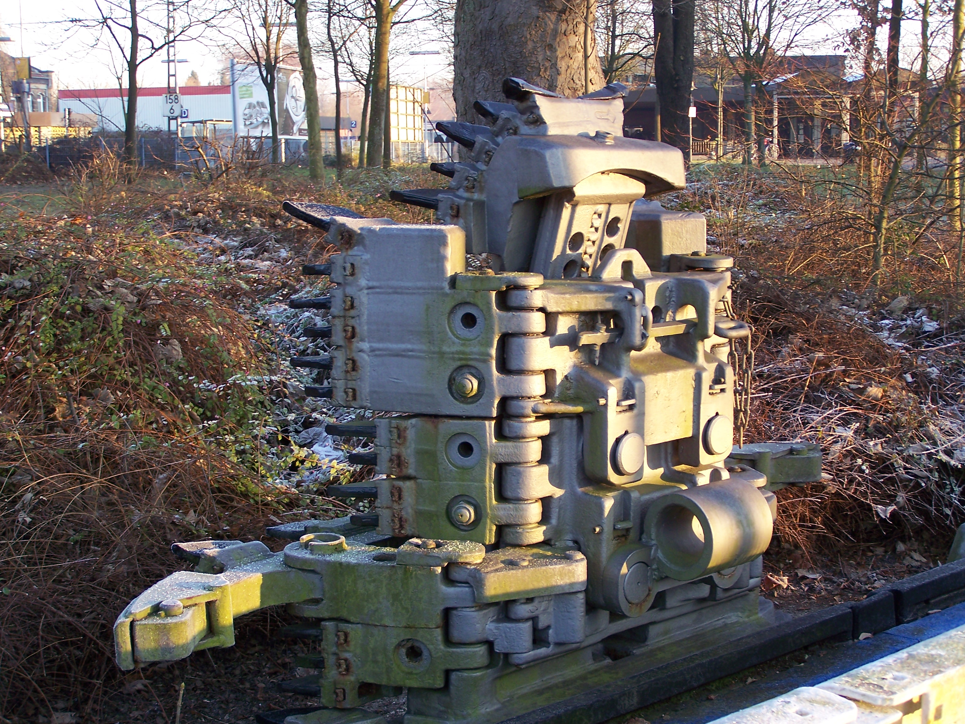 Coal plough monument Ibbenbüren, North Rhine-Westphalia, Germany. The coal plough was once invented at the Ibbenbüren colliery.